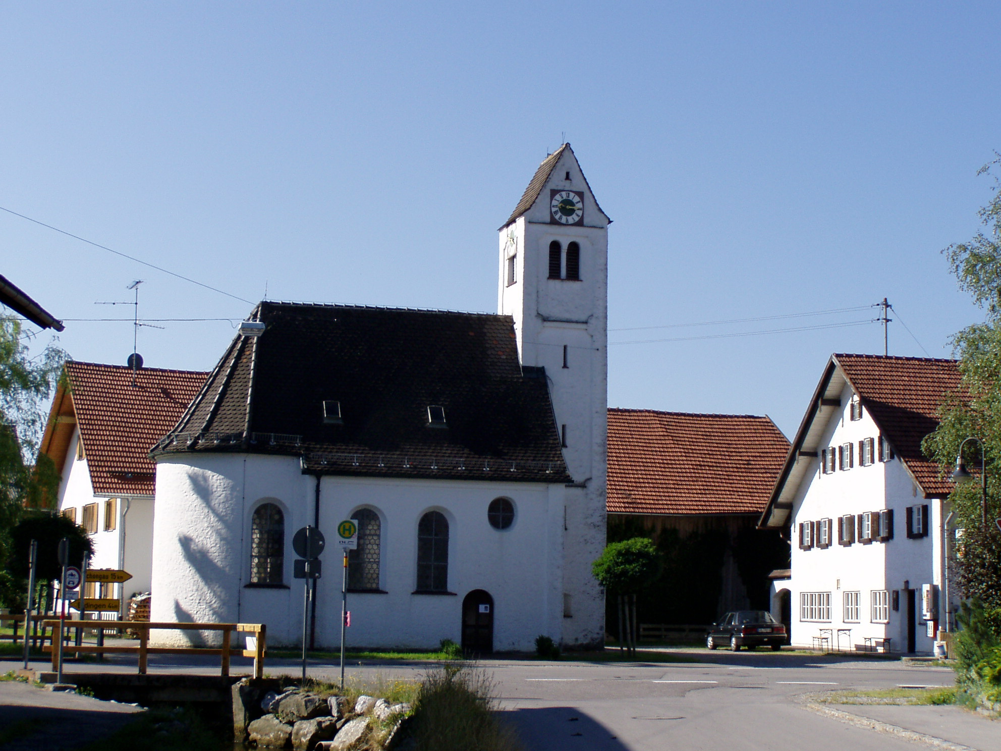 Kapelle Ob, Bidingen